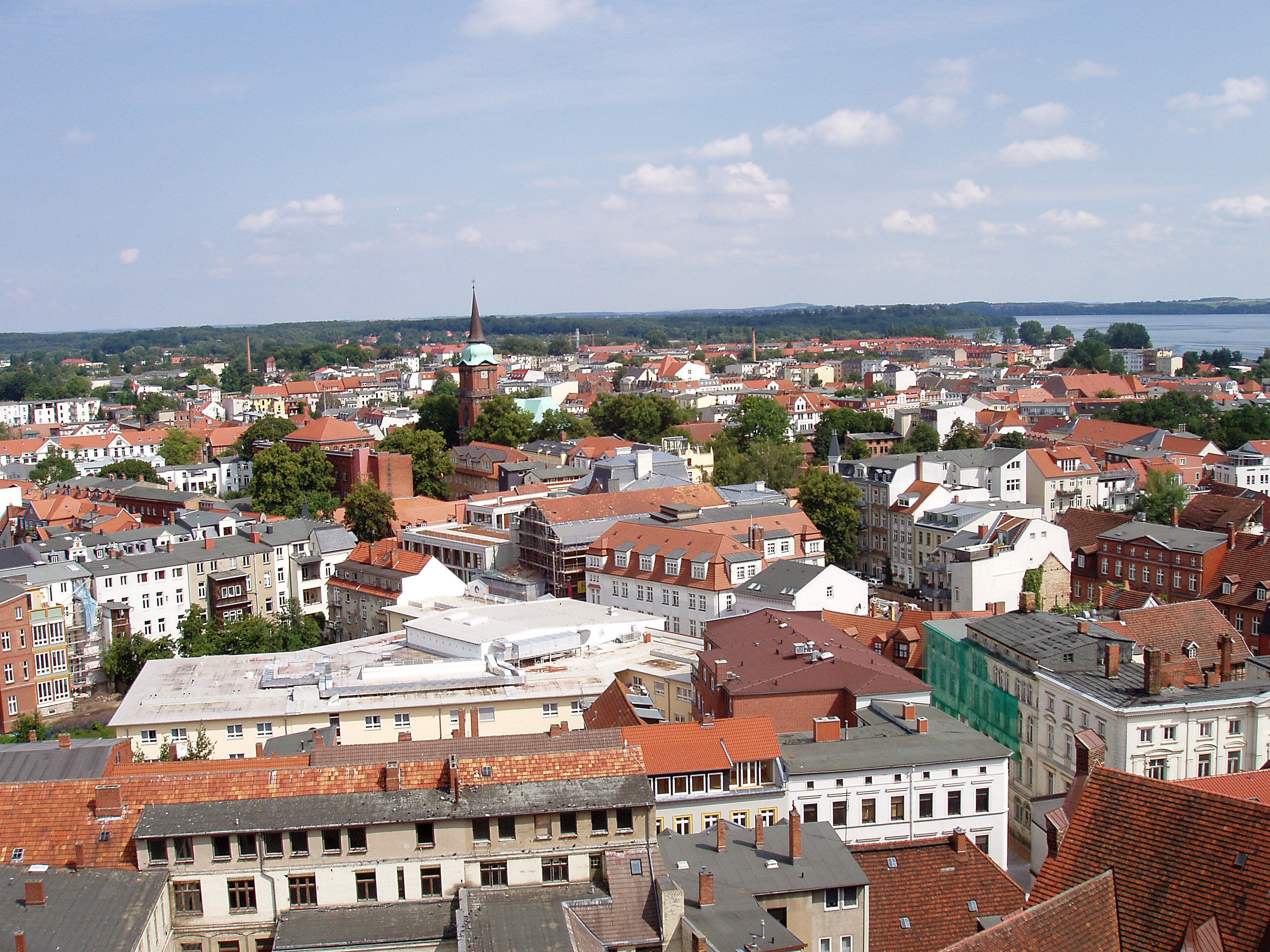 Schelfstadt, Schwerin (Germany), view to the north east from cathedral